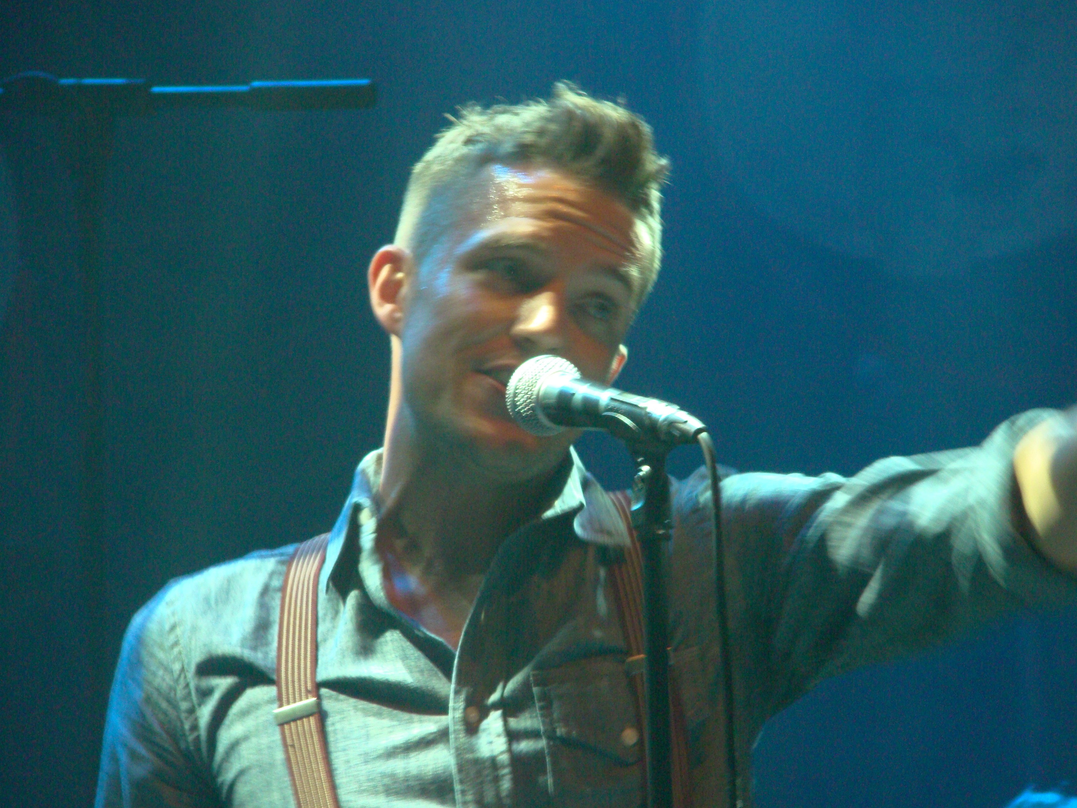 Brandon Flowers